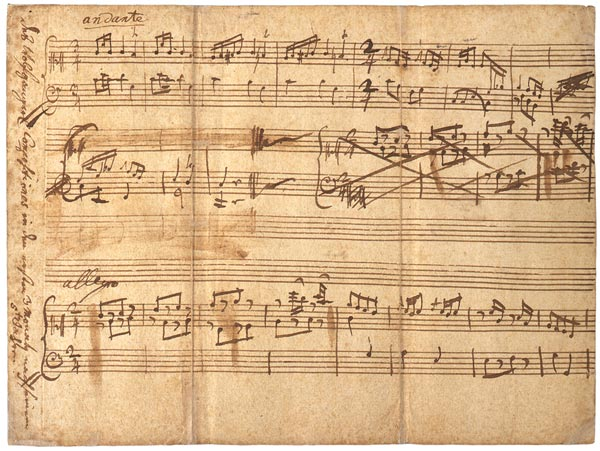 Mozart's first compositions: Andante C major (K.1a) and Allegro C major (K.1b), writed by Leopold Mozart.